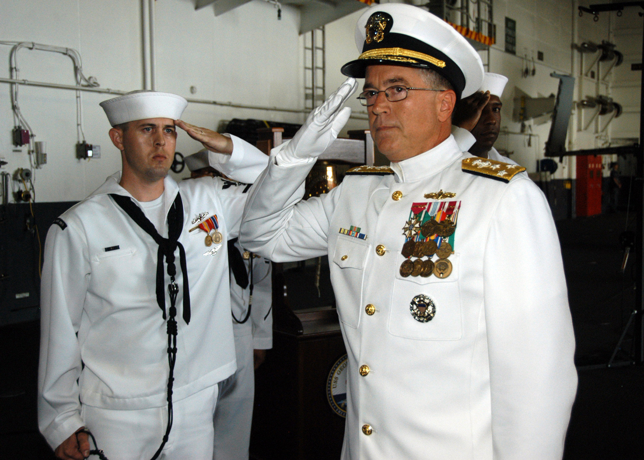 NORFOLK (Aug. 12, 2010) Vice Adm. Daniel P. Holloway salutes the sideboys during the Commander, U.S. 2nd Fleet change of command ceremony aboard the aircraft carrier USS George H.W. Bush (CVN 77). Holloway relieved Vice Adm. Mel Williams Jr., as commander, U.S. 2nd Fleet. (U.S. Navy photo by Mass Communication Specialist 3rd Class Brian Goodwin/Released)